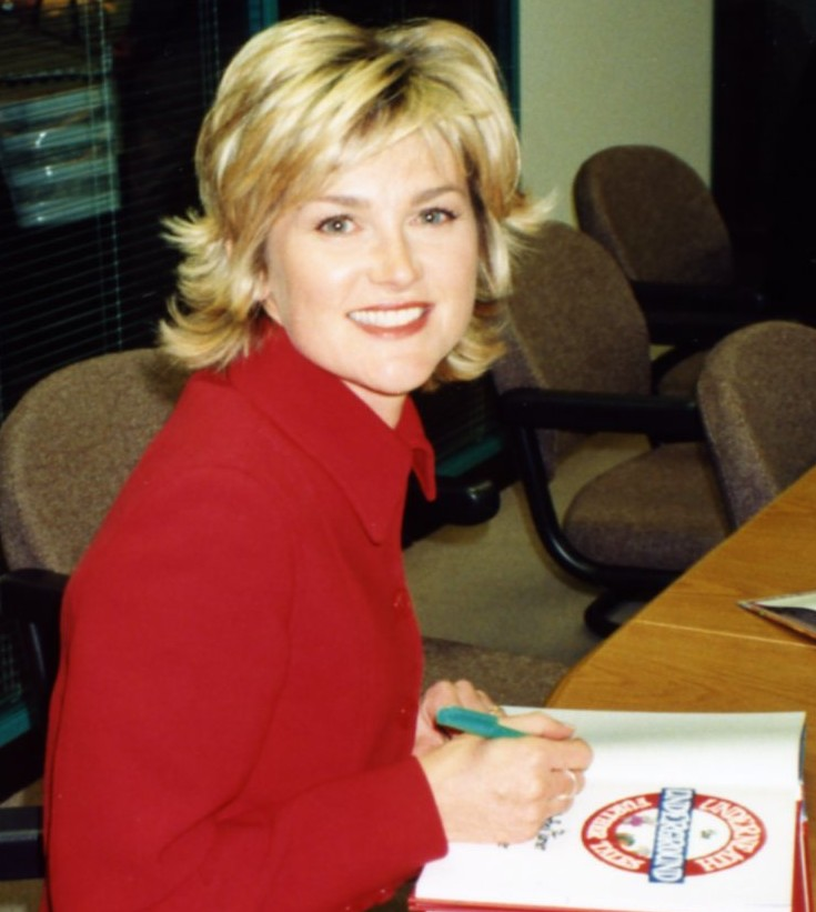 Anthea Turner at a book signing